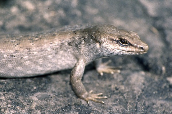 Adult Telfair's Skink (Leiolopisma telfairi), Round Island, Mauritius